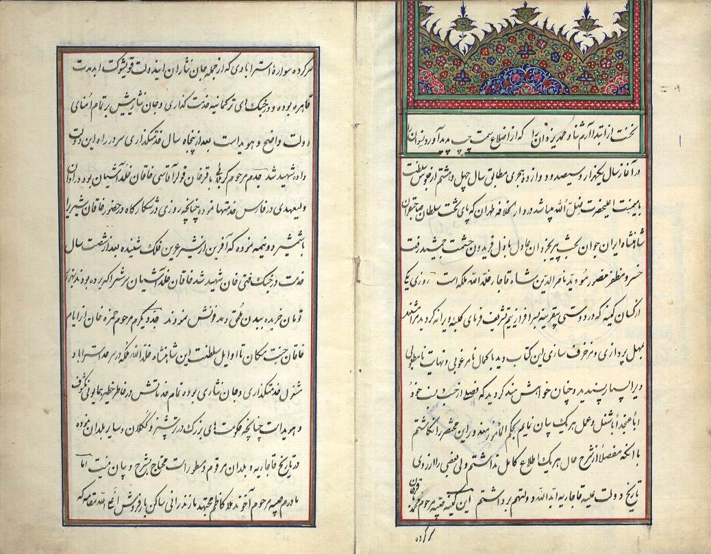 A picture of Ma‘ayib al-rijal manuscript. Written by Bibi Khanoom Astarabadi in 1894.